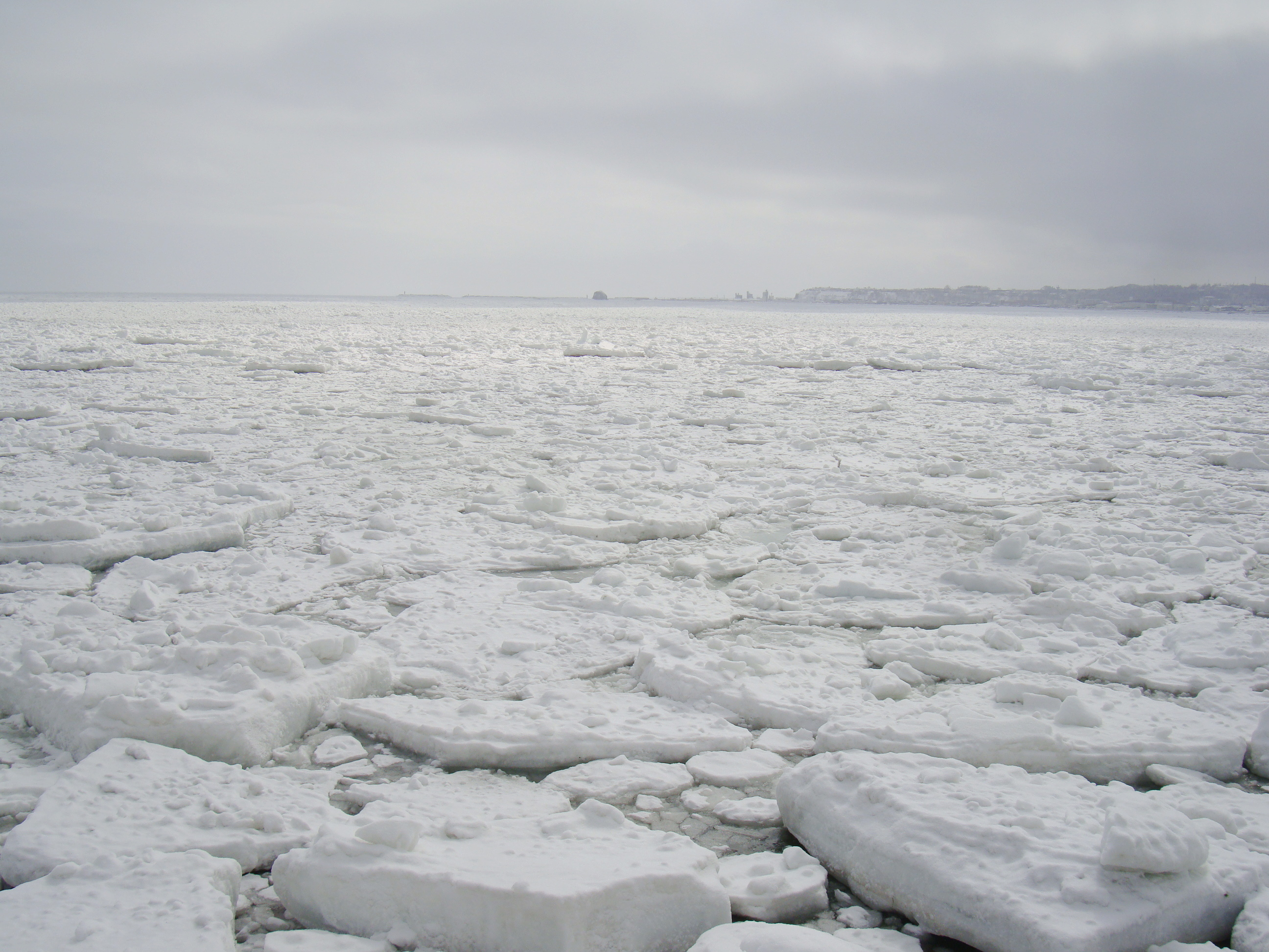 Drift ice of Abashiri, Hokkaido, Japan.